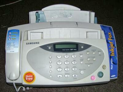 Samsung fax machine